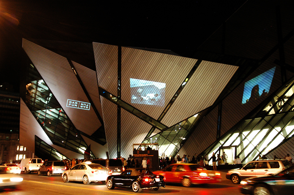 "From September 8 to 17, 2007, the Institute for Contemporary Culture (ICC) at the Royal Ontario Museum (ROM) presents DARFUR/DARFUR, a provocative photography exhibit projected on the exterior of the Museum’s Michael Lee-Chin Crystal. Over 150 large-scale colour and black-and-white images by seven international photojournalists and one former U.S. Marine explore the lives of the men, women and children who are currently under attack in the Darfur region in western Sudan. The images will be visible at night from dusk to 11 pm on the ROM’s Bloor Street Plaza, in front of the Lee-Chin Crystal."[1]